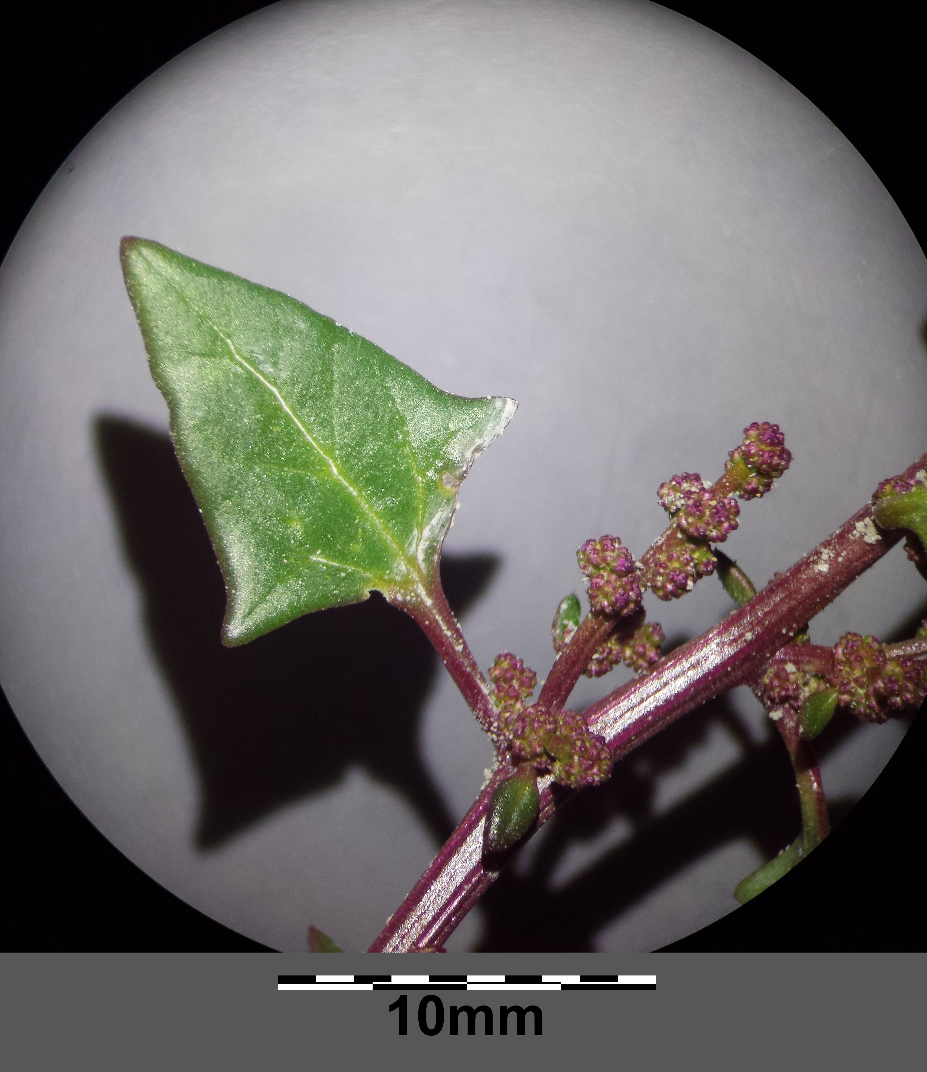 Stem with leaf and inflorescence Taxonym: Chenopodium chenopodioides ss Fischer et al. EfÖLS 2008 ISBN 978-3-85474-187-9 Location: Sechsmahdlacke (Seewinkel), district Neusiedl am See, Burgenland, Austria - ca. 120 m a.s.l. Habitat: salt lake